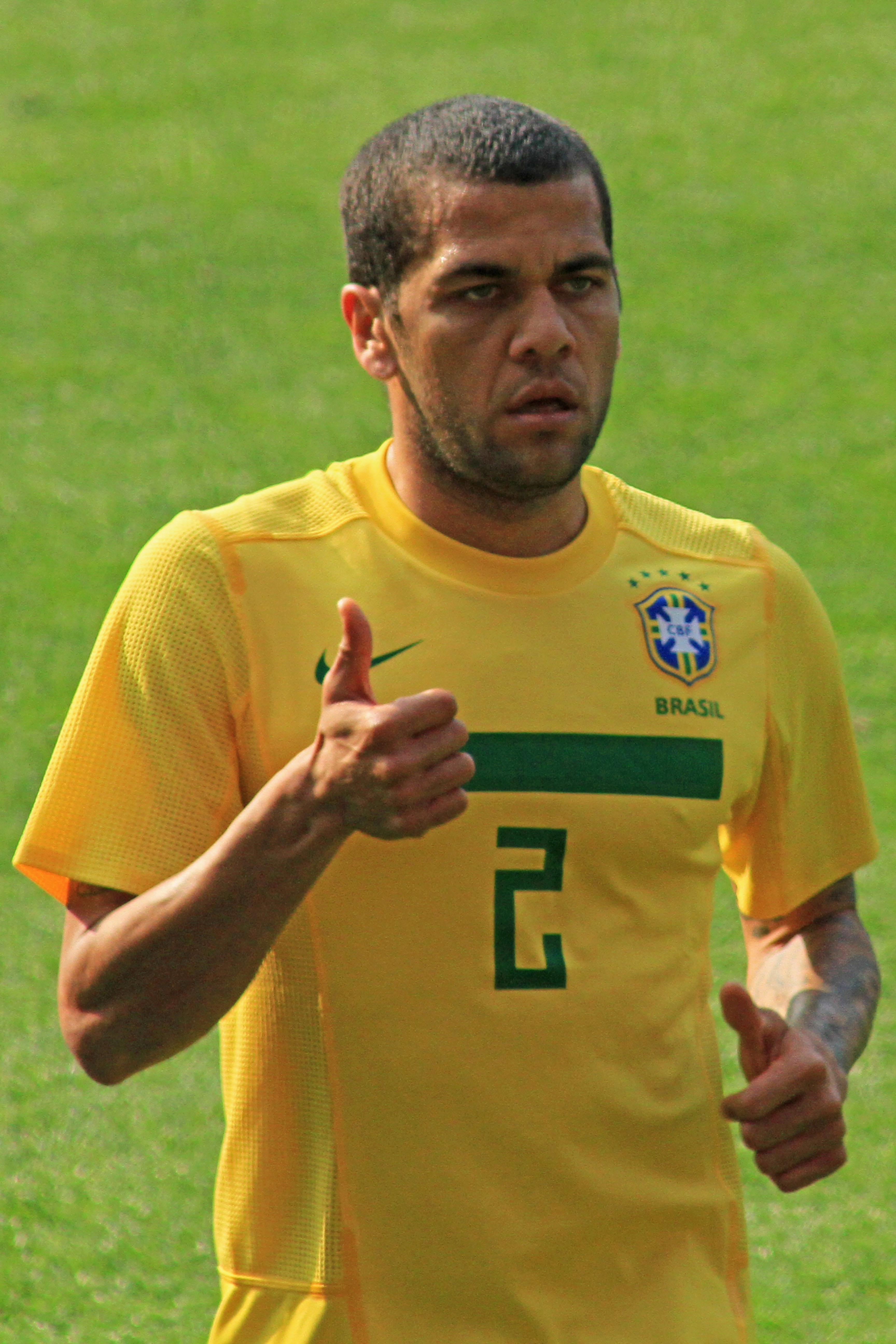 Brazilian footballer Daniel "Dani" Alves da Silva during the Scotland v Brazil international match played in London on 27 March 2011.